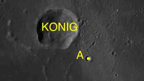 Part of the chart LAC-94 used for the presentation